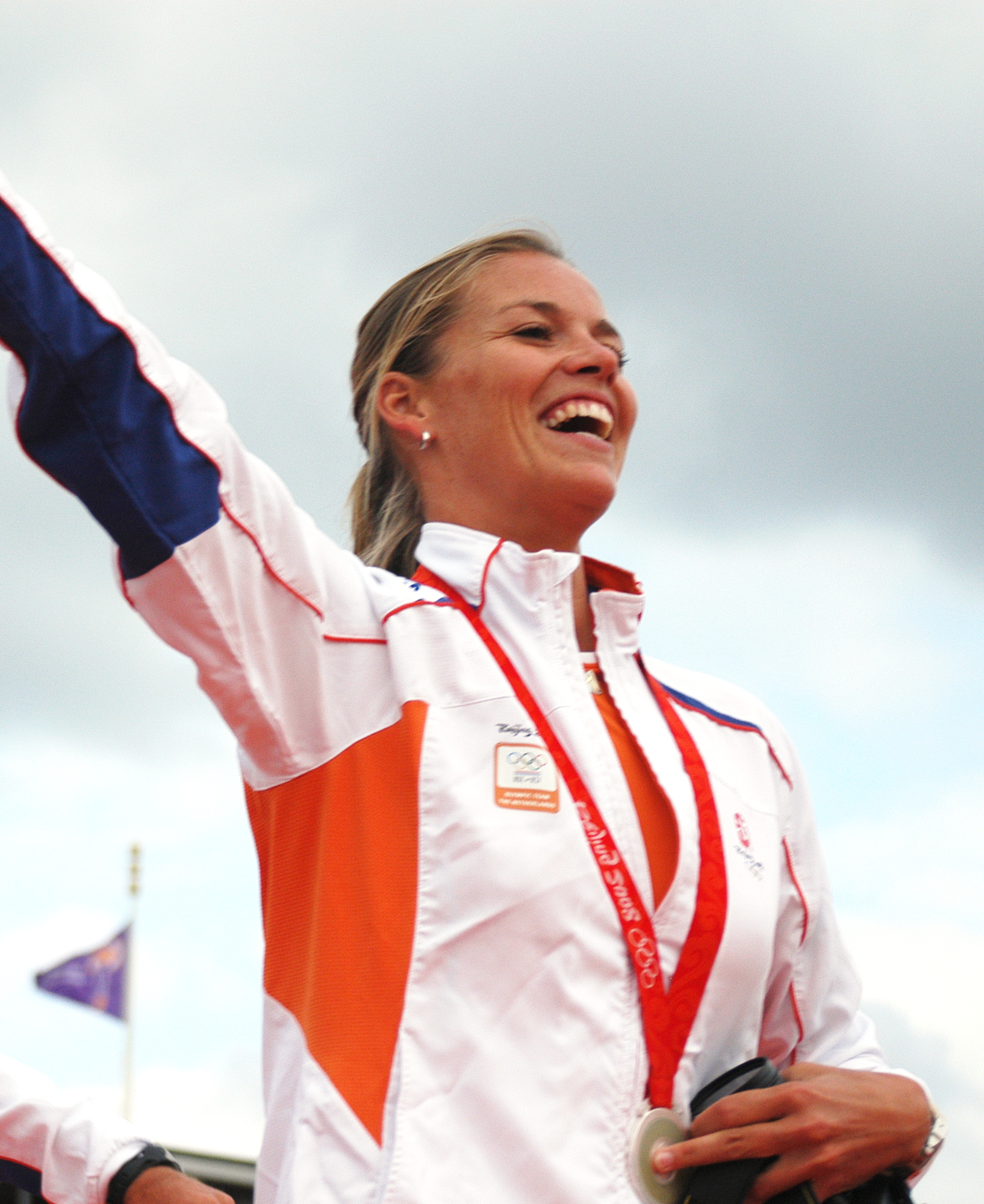 Lobke Berkhout at the Olympic welcome in the Olympic Stadium in Amsterdam, the Netherlands